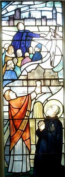 Window of Blessed Dominic Barberi, Passionist Church, Sutton, St. Helen's